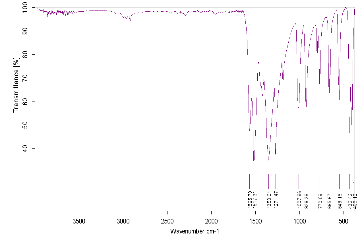 Infrared spectrum of Tris(acetylacetonato)iron(III). Measured at University of Graz.